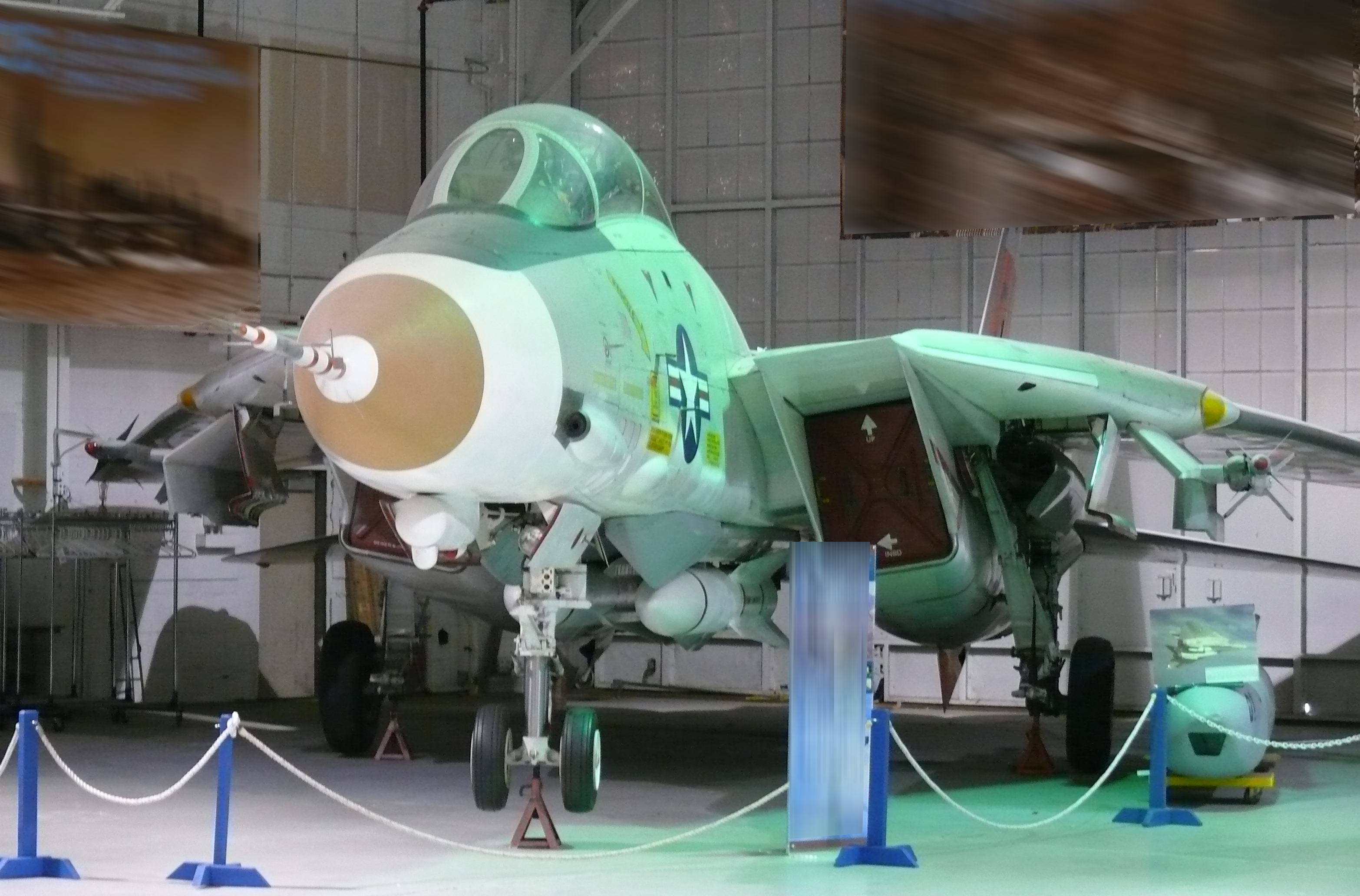 Grumman F-14 Tomcat in the Cradle of Aviation Museum. The Grumman F-14 Tomcat is a supersonic, twin-engine, two-seat, variable-sweep wing aircraft. The F-14 was the United States Navy's primary maritime air superiority fighter, fleet defense interceptor and tactical reconnaissance platform from 1974 to 2006. This aircraft is the third pre-production aircraft built having first flown on December 28, 1971 at the Grumman Flight Test Facility at Calverton, New York. It was primarily used for determining structural loads and flight characteristics under many extreme conditions.